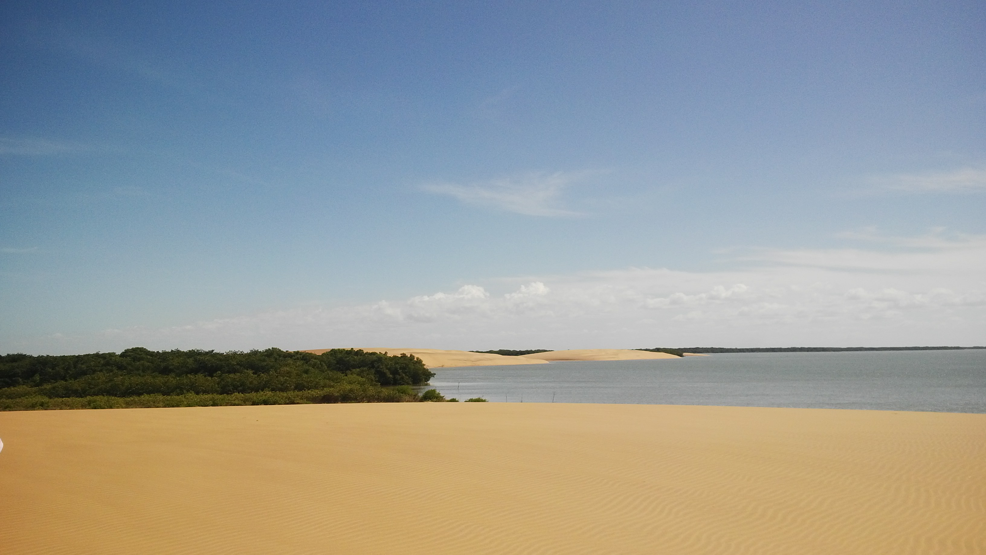 Los Medanos de Zapara, located in Zapara Island (Venezuela)